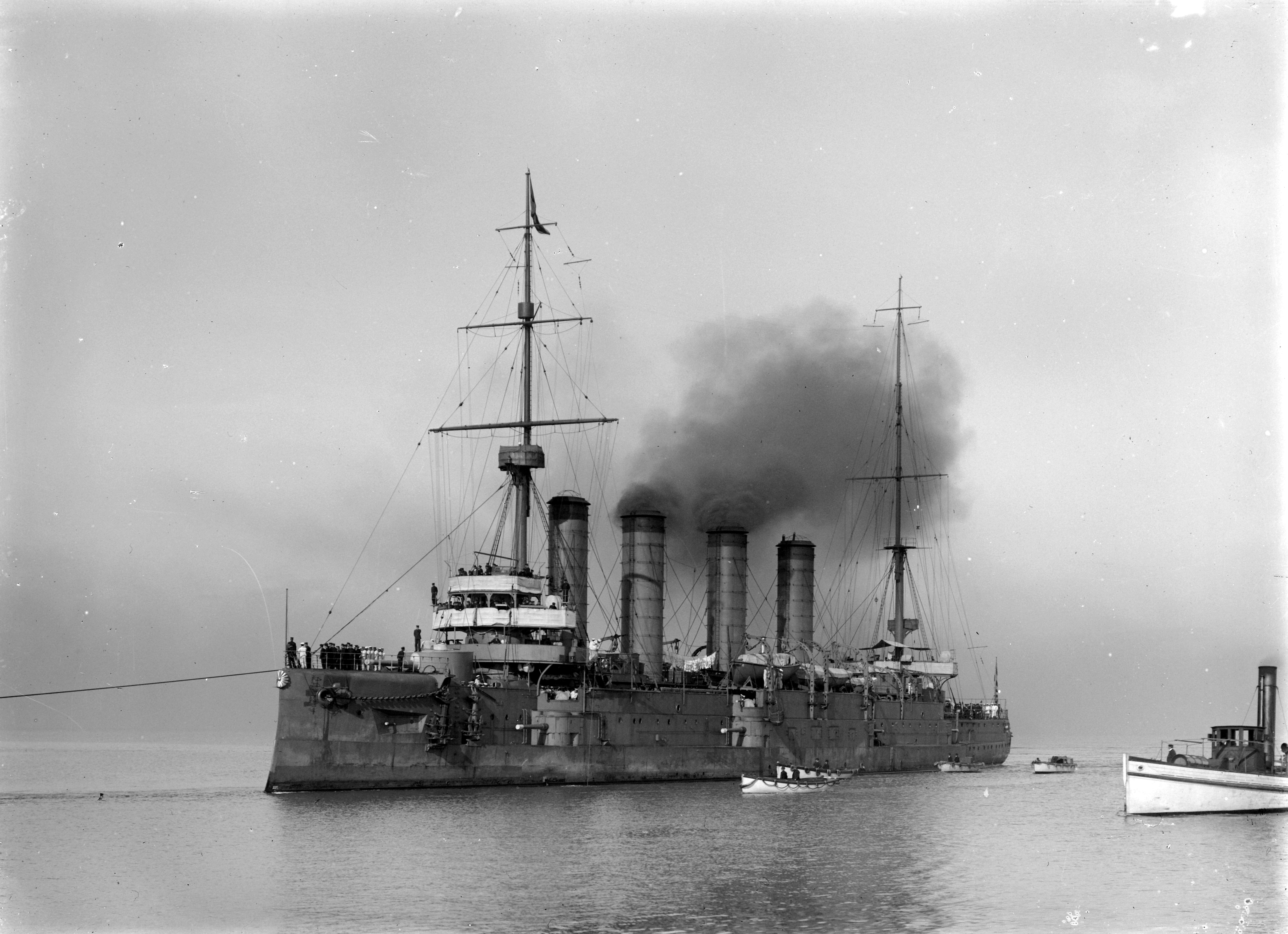 The Imperial Japanese first rank crusier «Aso» during visit in Australia, 1915.